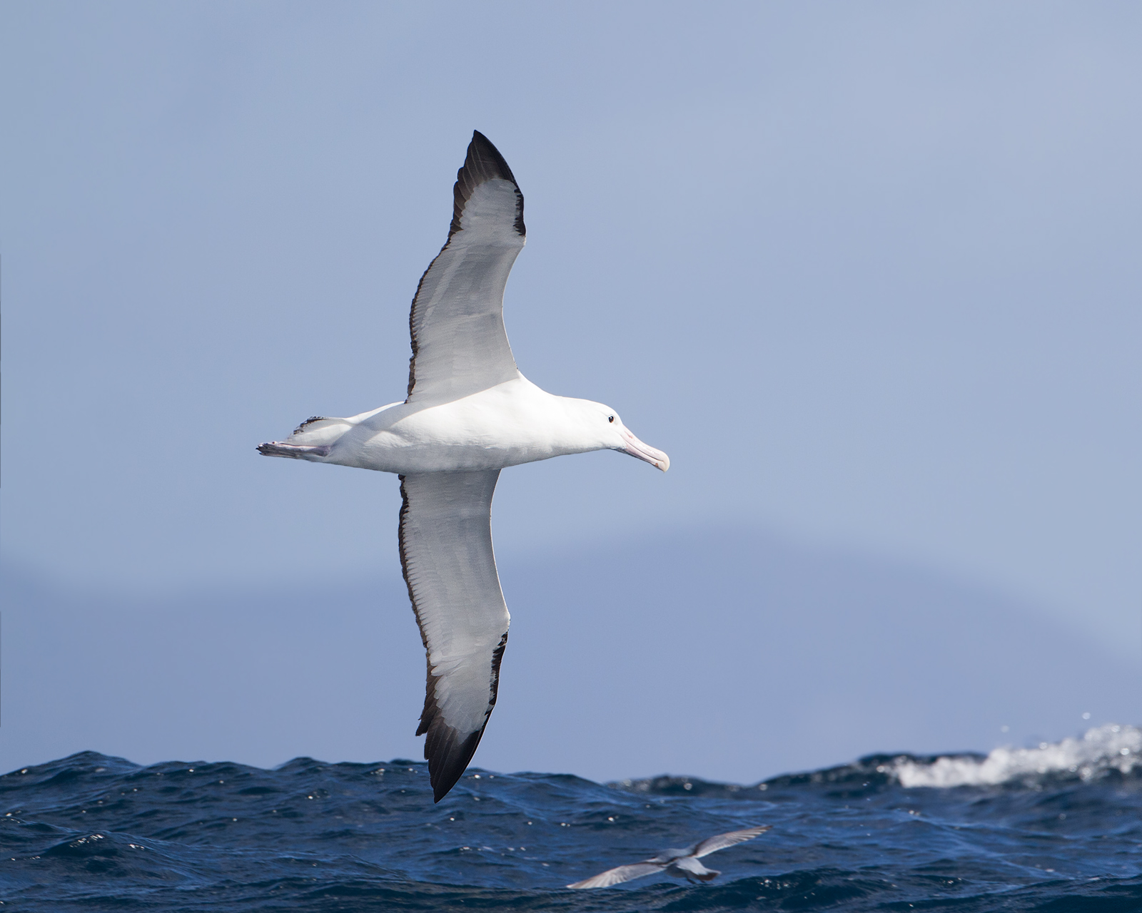 Southern Royal Albatross (Diomedea epomophora) in flight, East of the Tasman Peninsula, Tasmania, Australia